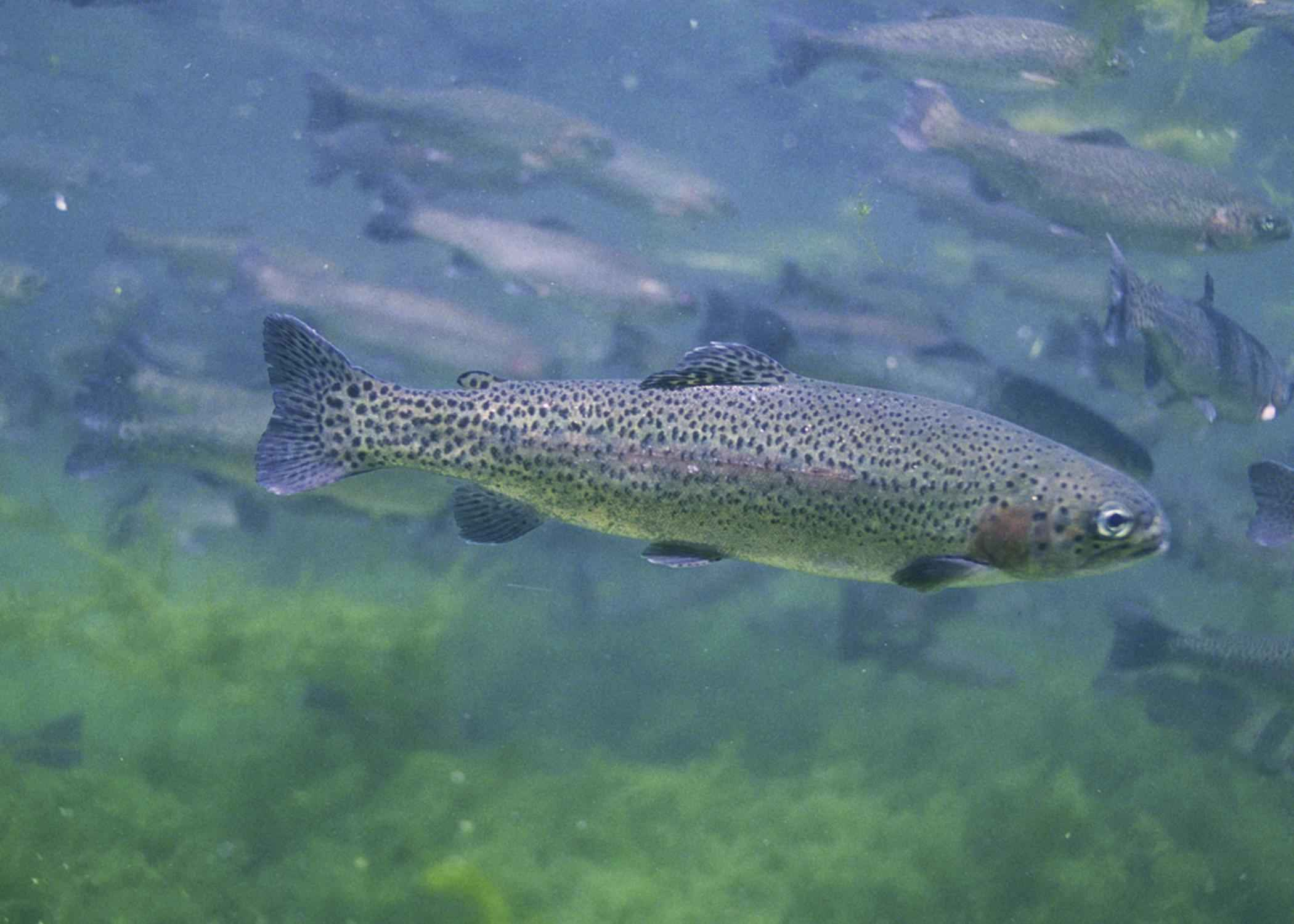 Image title: Close up of rainbow trout fish underwater oncorhynchus mykiss Image from Public domain images website